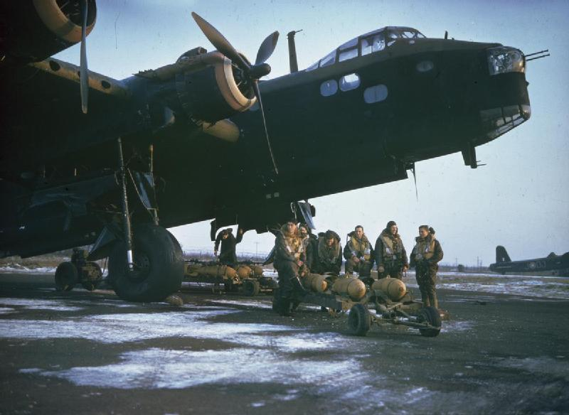 The Royal Air Force in Britain, January 1942 A seven man crew from No 149 Squadron, Royal Air Force under the nose of Short Stirling W7455/`OJ-B' at Mildenhall, Suffolk, while the aircraft is being bombed-up.